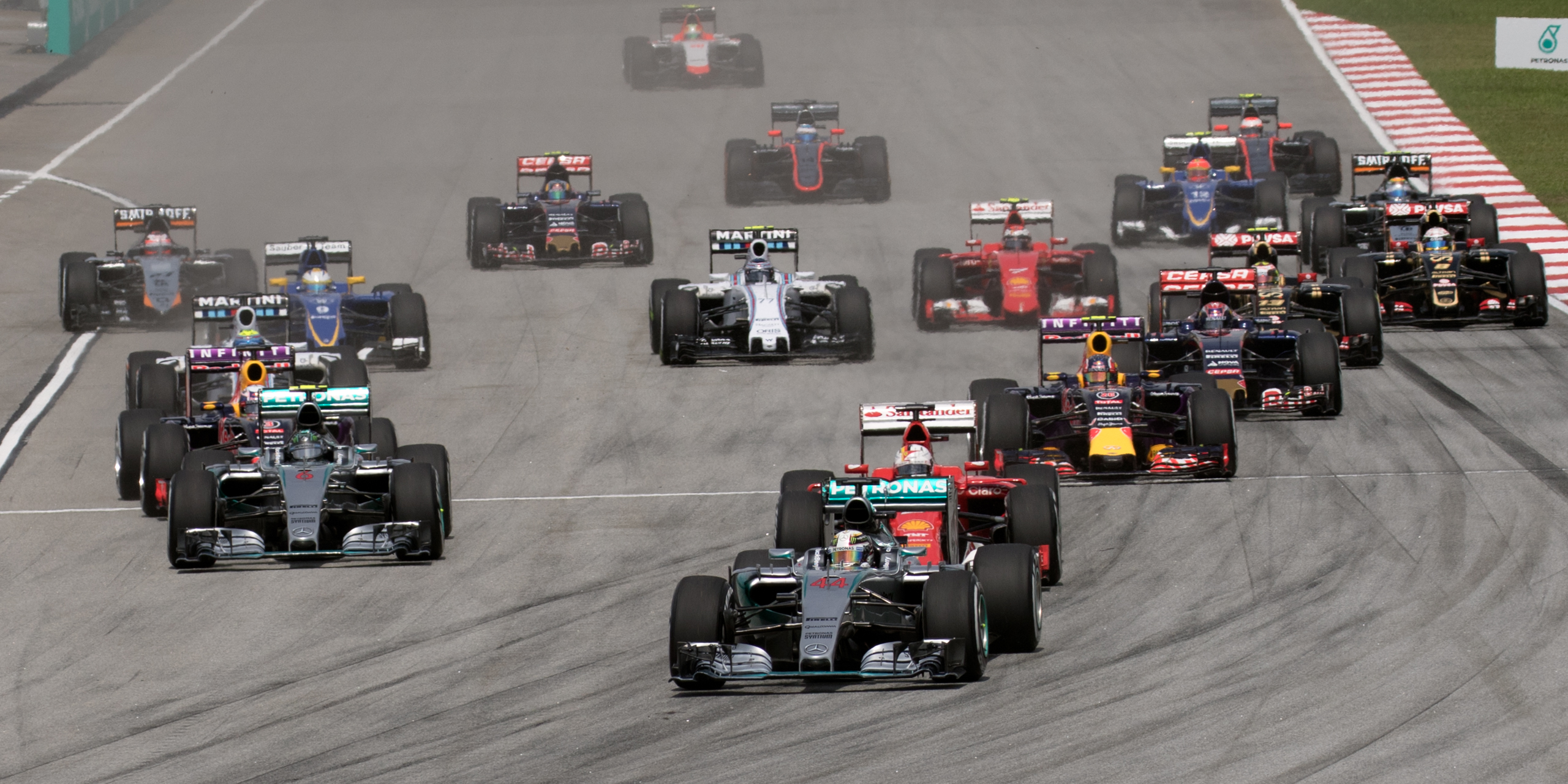 Formula One 2015 Rd.2 Malaysian GP: opening lap